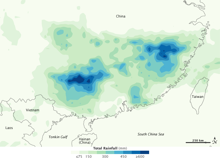 By late June, flooding had killed at least 379 people and forced some 100,000 more from their homes in southern China, according to news reports. Flooding is an annual event along the Yangtze River, but Chinese state media likened the 2010 summer flooding to especially devastating inundations in 1998, which ultimately caused at least 3,700 casualties and left 15 million residents temporarily homeless. This color-coded image shows rainfall amounts from June 15–21, 2010. The lightest rainfall amounts appear in pale green, and the heaviest amounts appear in dark blue. Pockets of very heavy rain—600 or more millimeters (24 or more inches)—occur roughly 250 kilometers inland, near Taiwan in the east and the Vietnam border in the southwest. Relatively heavy rain extends the length of southern China’s coast. This image is based on data from the Multisatellite Precipitation Analysis produced at Goddard Space Flight Center, which estimates rainfall by combining measurements from many satellites and calibrating them using rainfall measurements from the Tropical Rainfall Measuring Mission (TRMM) satellite.